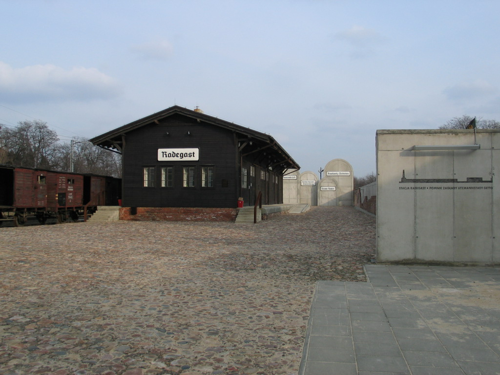 Pomnik Radegast (Radogoszcz) w Łodzi. Radegast memorial in Lodz, Poland. Radegast was place where Jews were gathered for deportation to the German Nazi death camps.